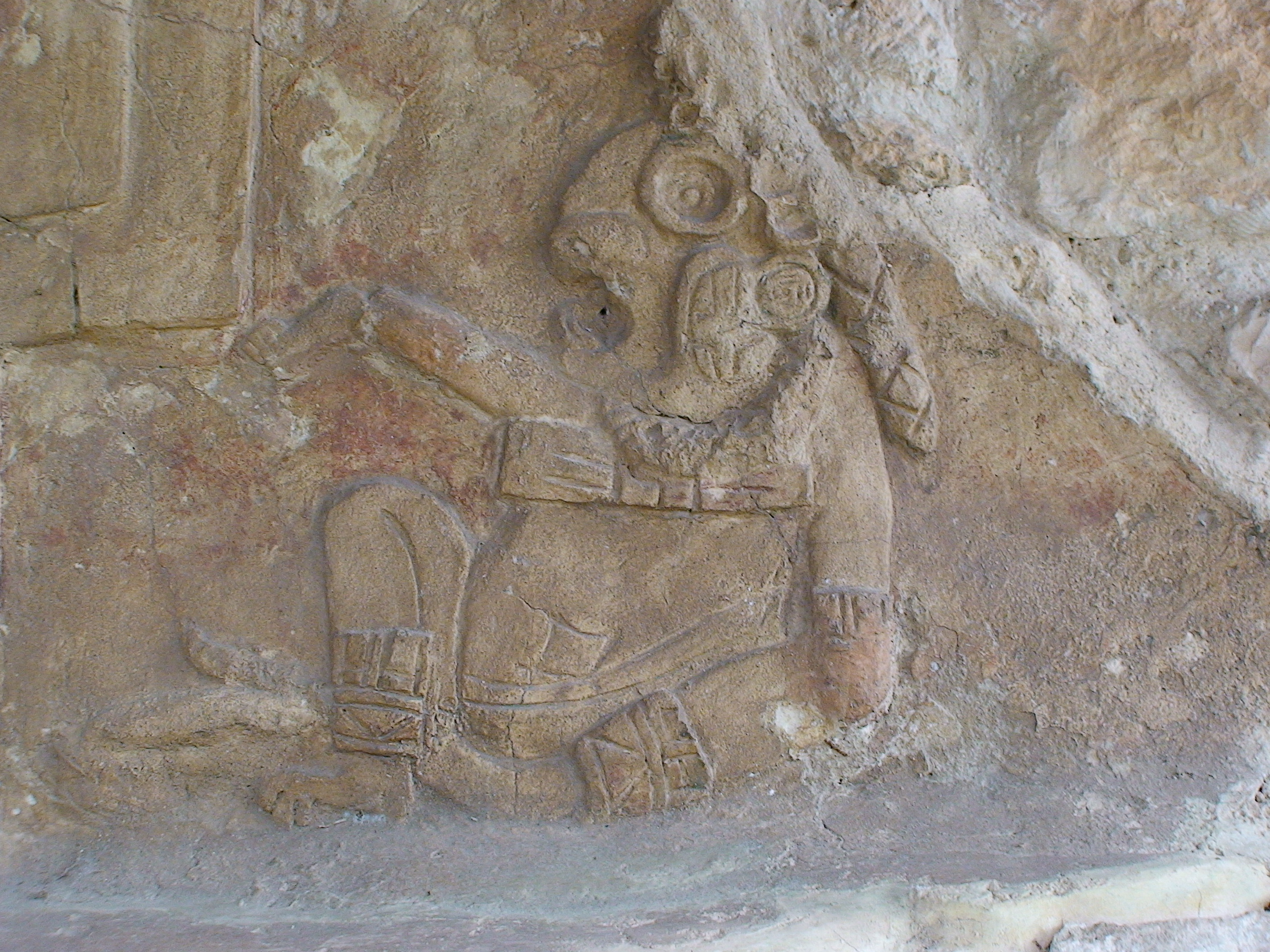 Acanceh, Yucatan, Mexico: Palace of the stuccoes